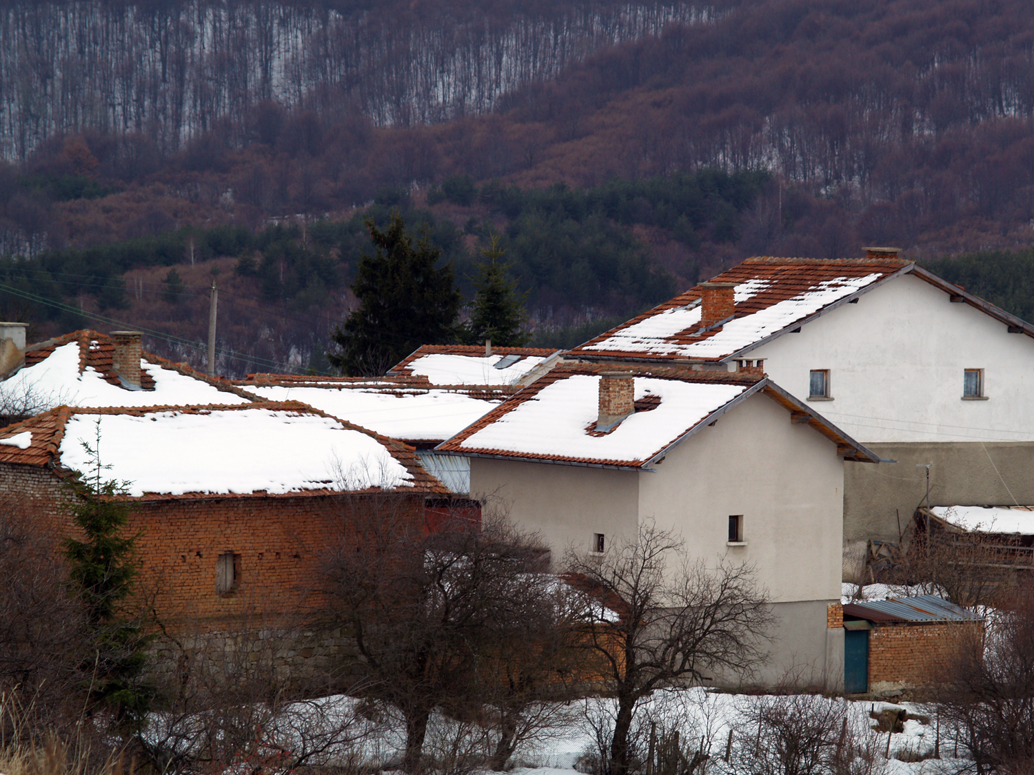 An older district of Plana